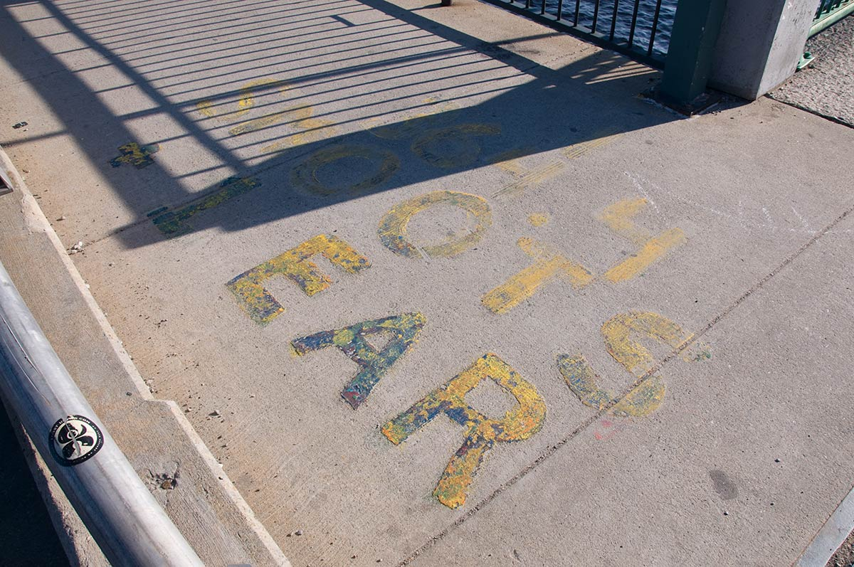 Smoot mark 364.4 on the Cambridge end of the Harvard Bridge, upstream (west) side. The mark really needs repainting. Note how it says "+ 1 ear", not "± 1 ear", like it should!